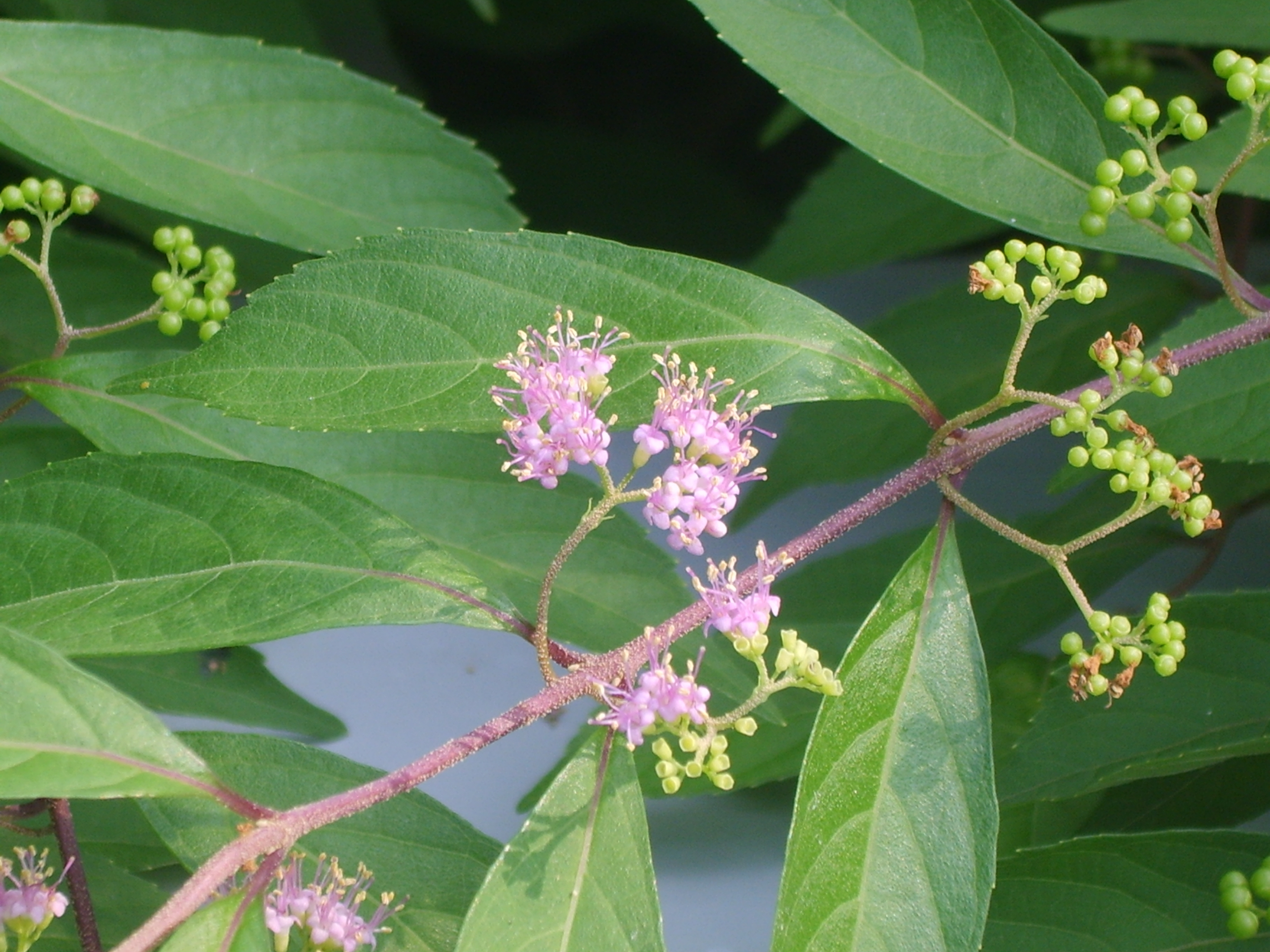 Callicarpa dichotoma in Gyeongbokgung, Korea